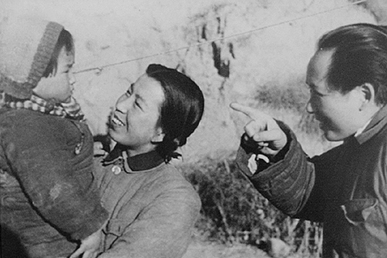 Young Jiang Qing and Mao in Yan'an in 1943